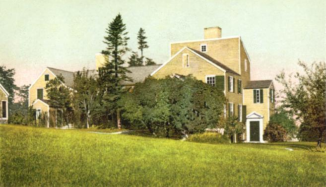 The Wentworth-Coolidge Mansion, Portsmouth, New Hampshire; from a 1902 postcard published by the Detroit Photographic Company. It was built in 1750 by Colonial Governor Benning Wentworth.